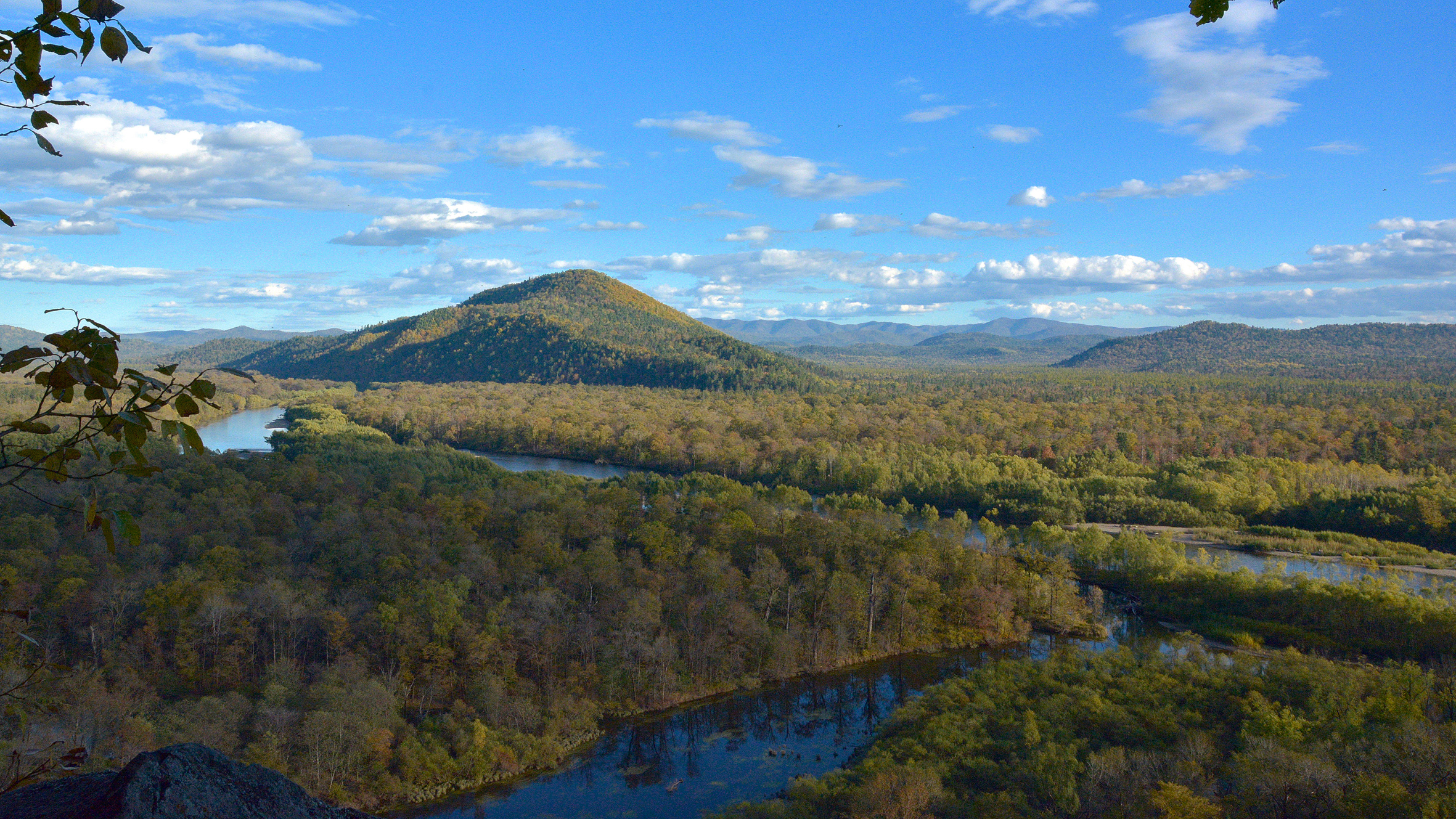 Bikin river valley, Russia This image is related to the protected area of Russia number 2510267